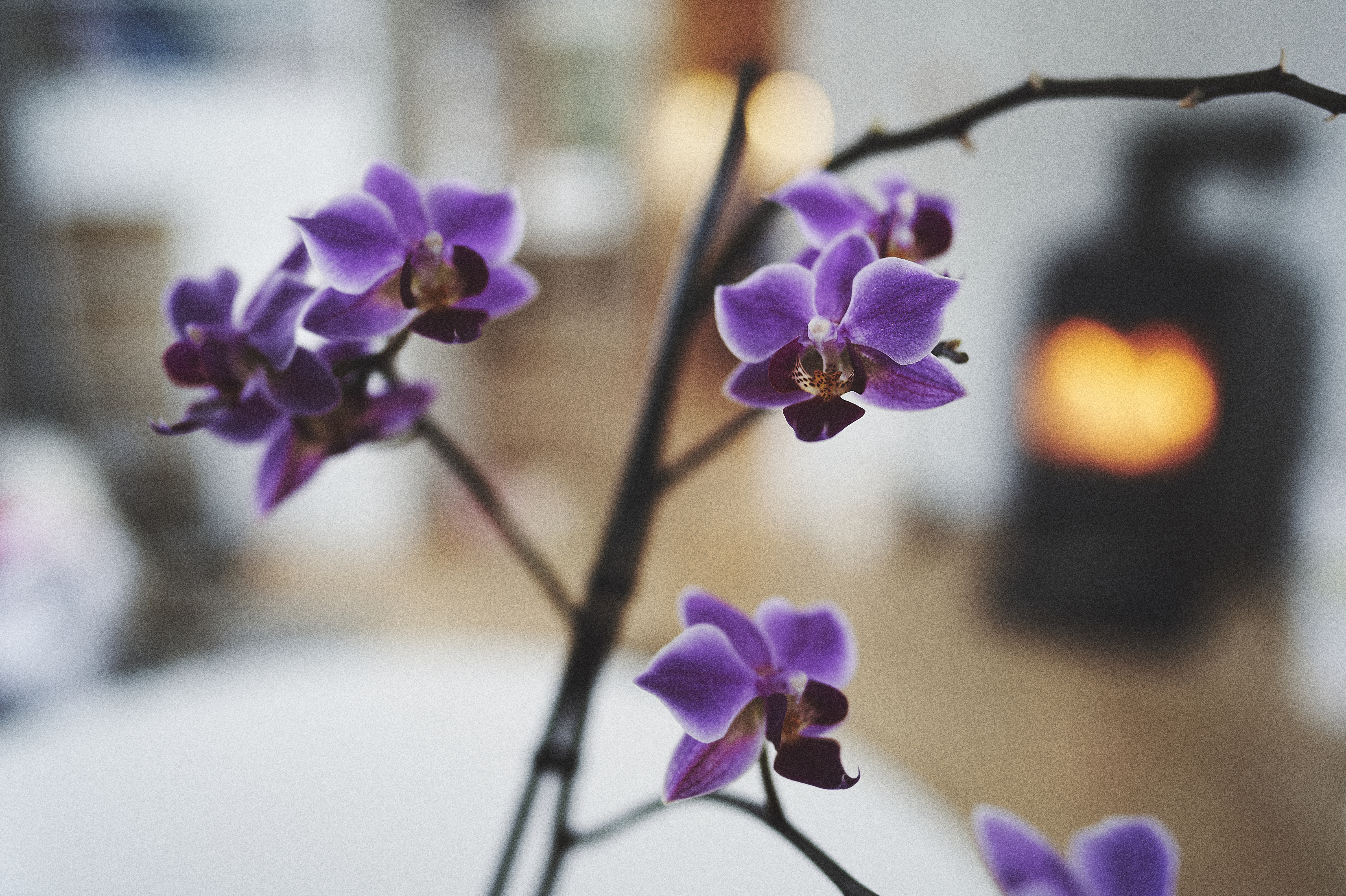 Orchid on the table of a small living room.